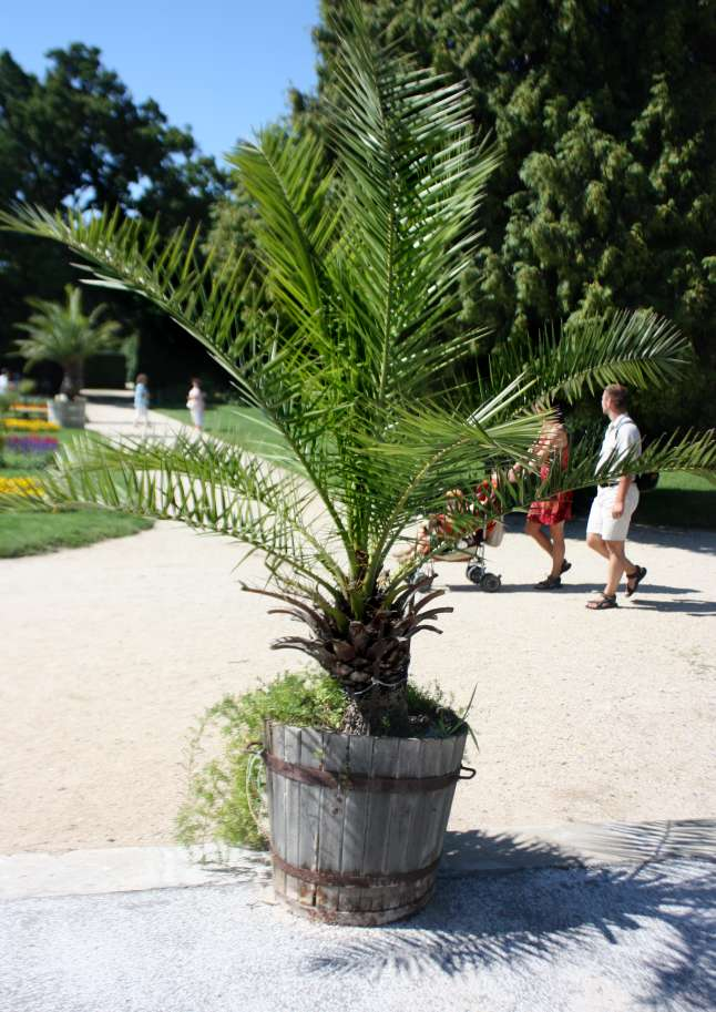 Lednice na Moravě, Czech republic, english park